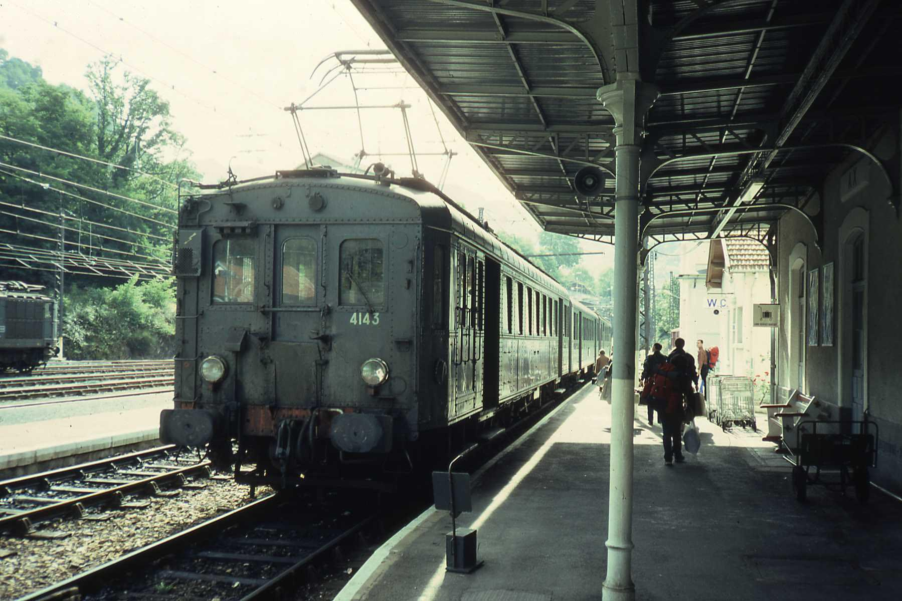 Z 4143 electric train in Ax-les-Thermes, Ariège, France.